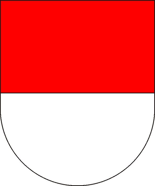 coat of arms of the archbishopric of Magdenburg